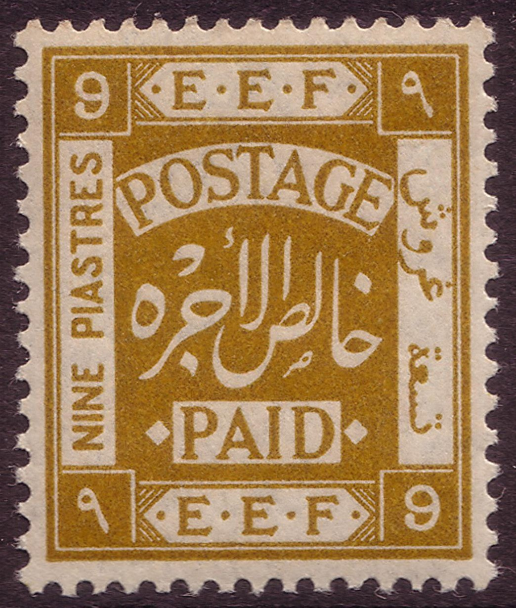 Stamp SG 13, 9 Piastres, issued 1918 by the British military administration in Palestine and Transjordan